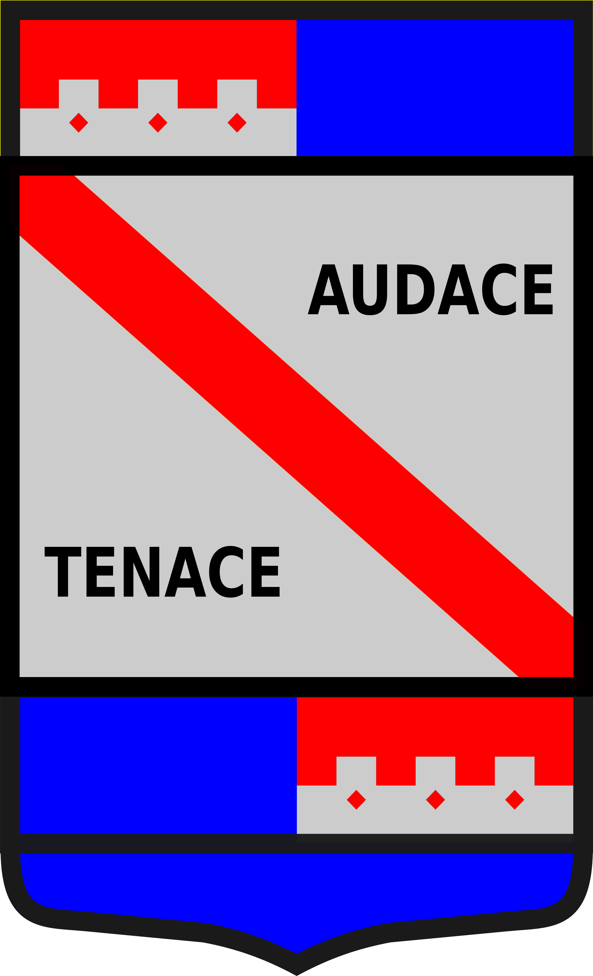 Coat of Arms of the 39th Infantry Regiment "Bologna", Royal Italian Army, 1939